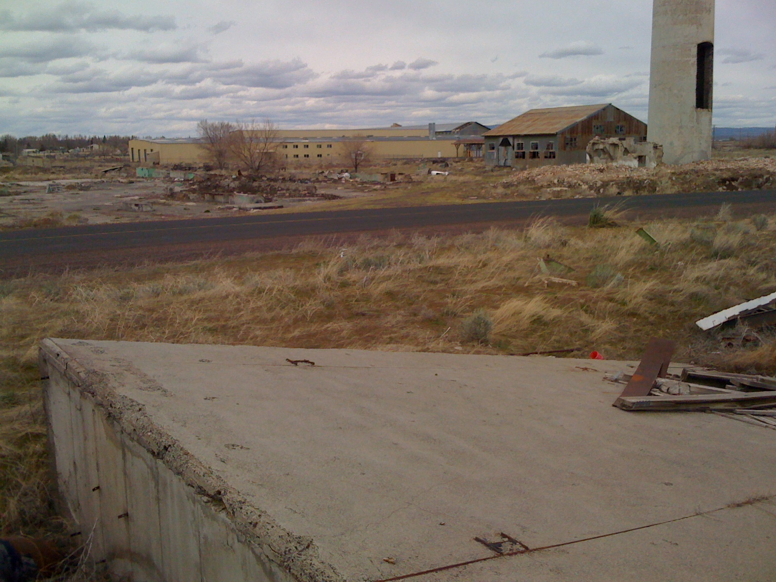 The former lumber mill of the Edward Hines Lumber Company in Hines, Oregon, USA From the 1930s until the 1980s, the mill processed ponderosa pine logs from the Malheur National Forest that were brought south on the Oregon and Northwestern Railroad